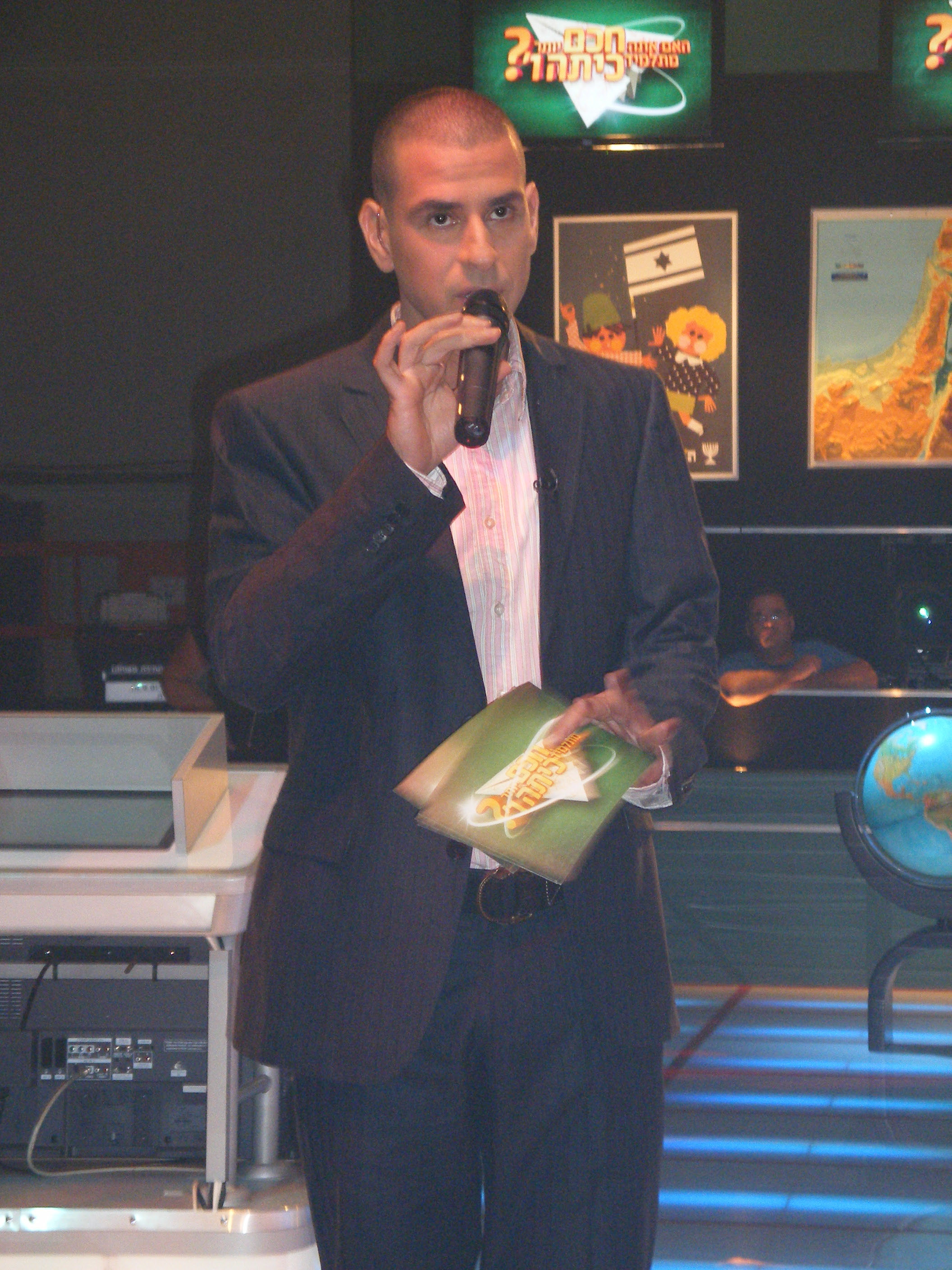 Eyal Kizis in his program "Are you smarter than a 6th grade student?"